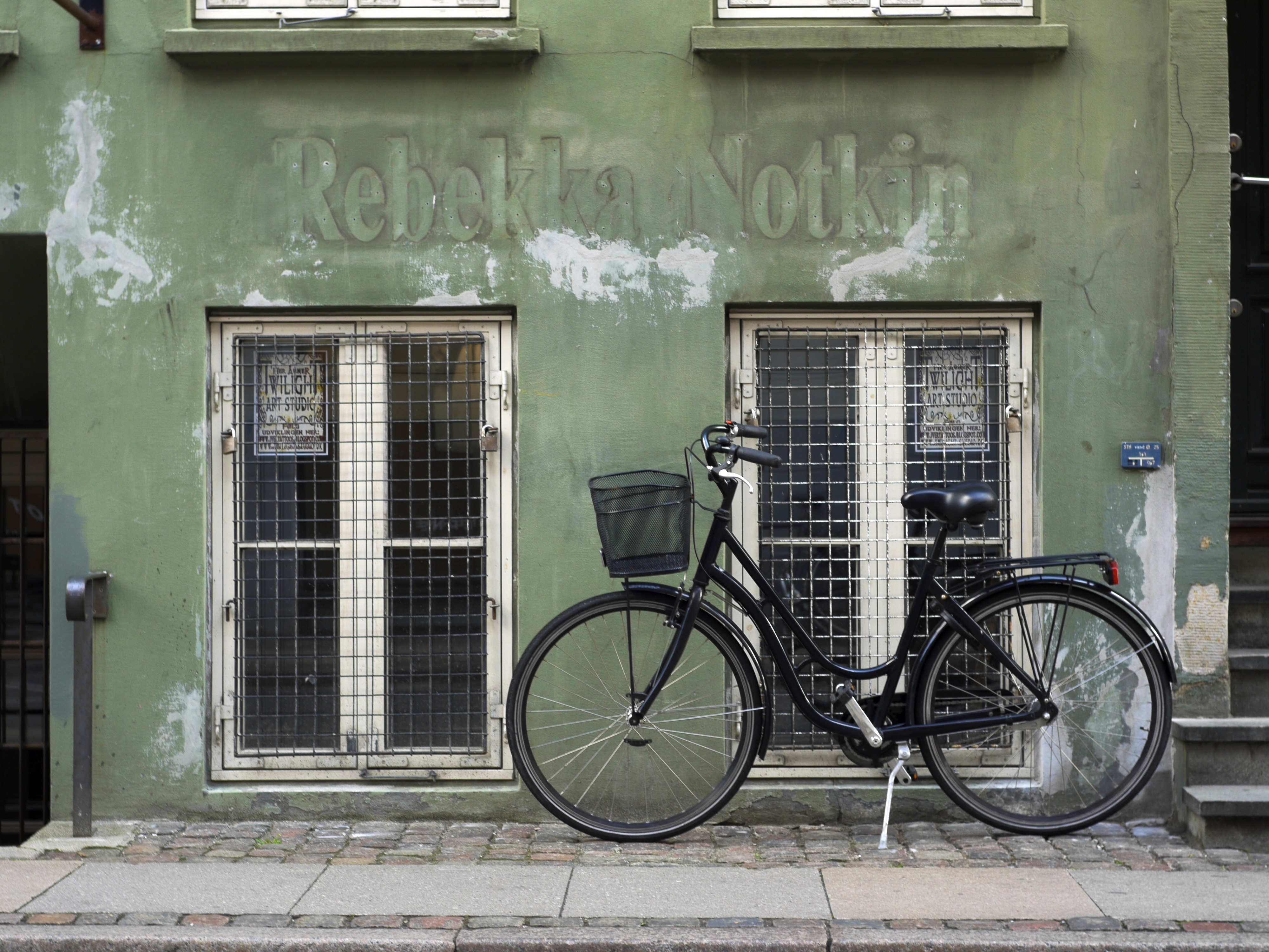 Rebekka Notkin and Bicycle